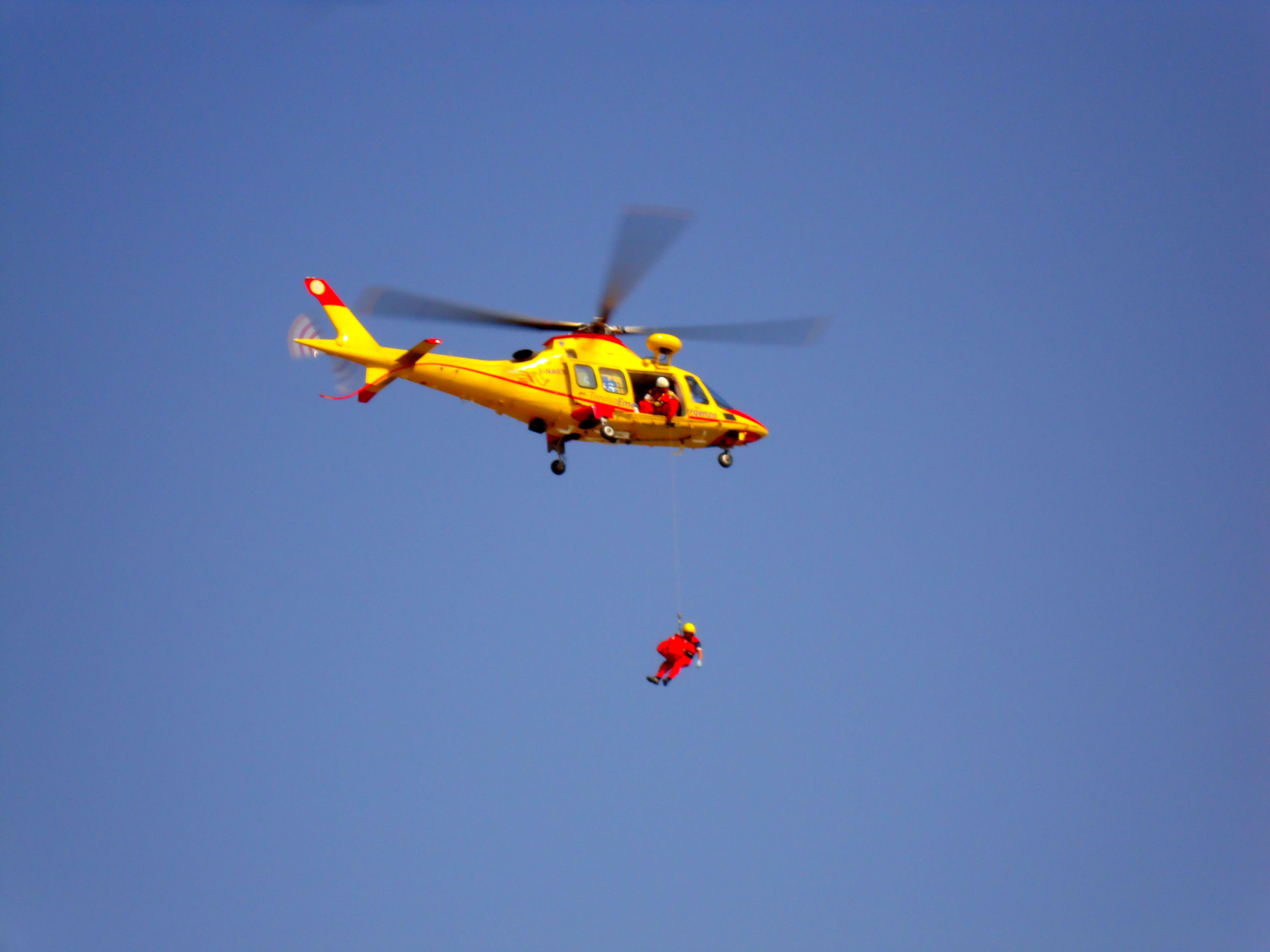 Luftrettung in Iatlien/Jesolo mit einer Agusta A109